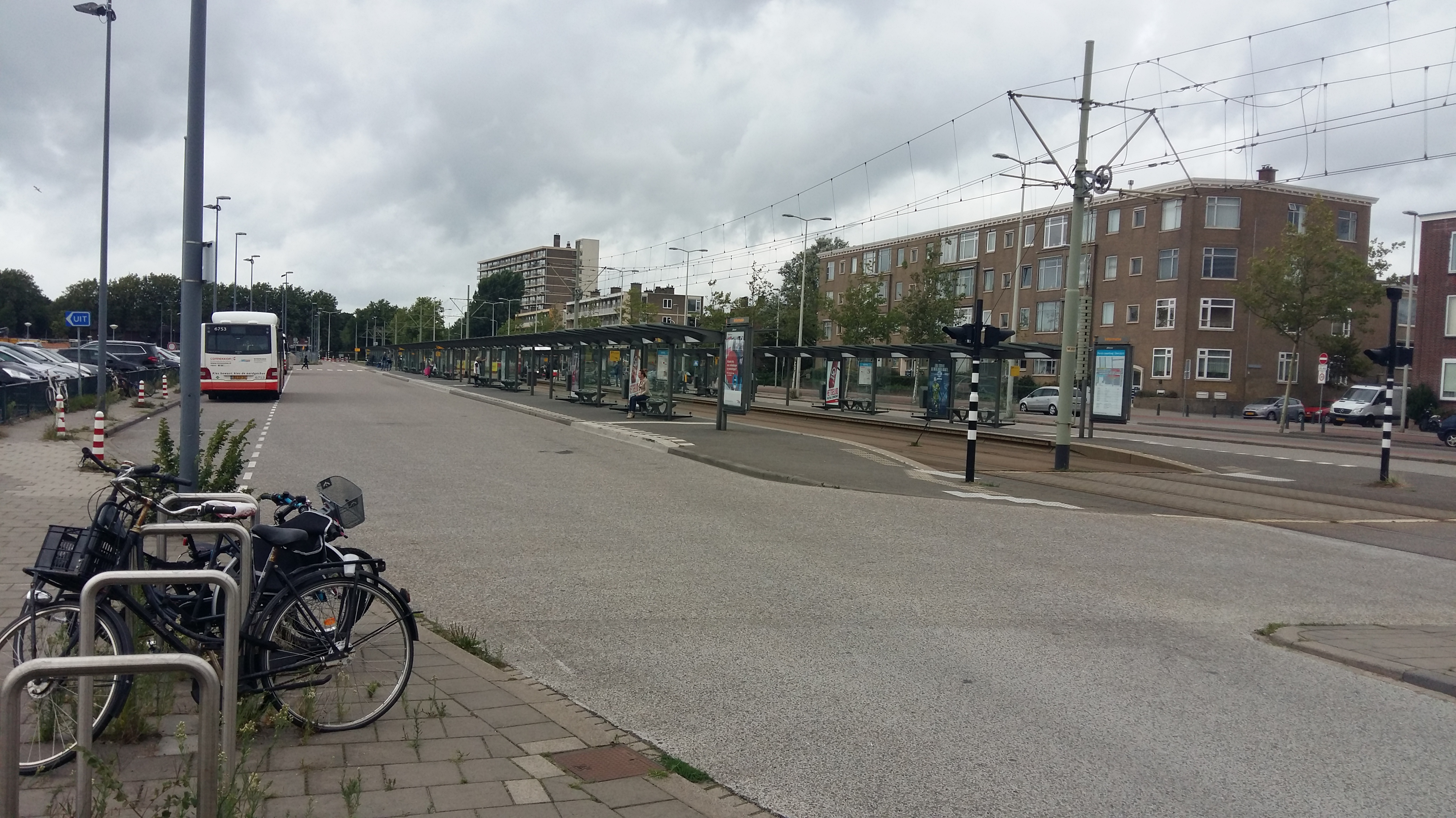 Leyenburg RandstadRail station